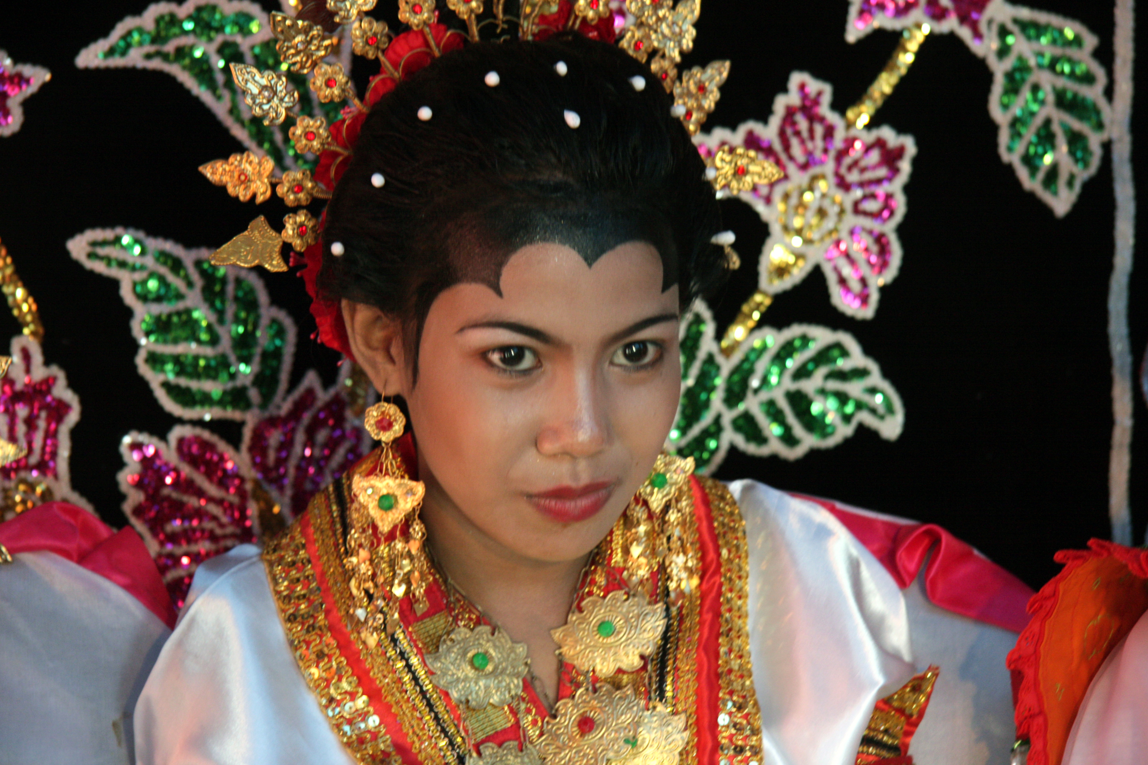 young girl Toraja, in a wedding in Sulawesi